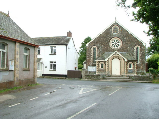 Canworthy Water. On 16th August 2004, at the time of the Boscastle flooding, the River Ottery broke its banks, causing major damage in the village. Cars and livestock were washed away and some villagers had to be rescued from their roofs by helicopter.